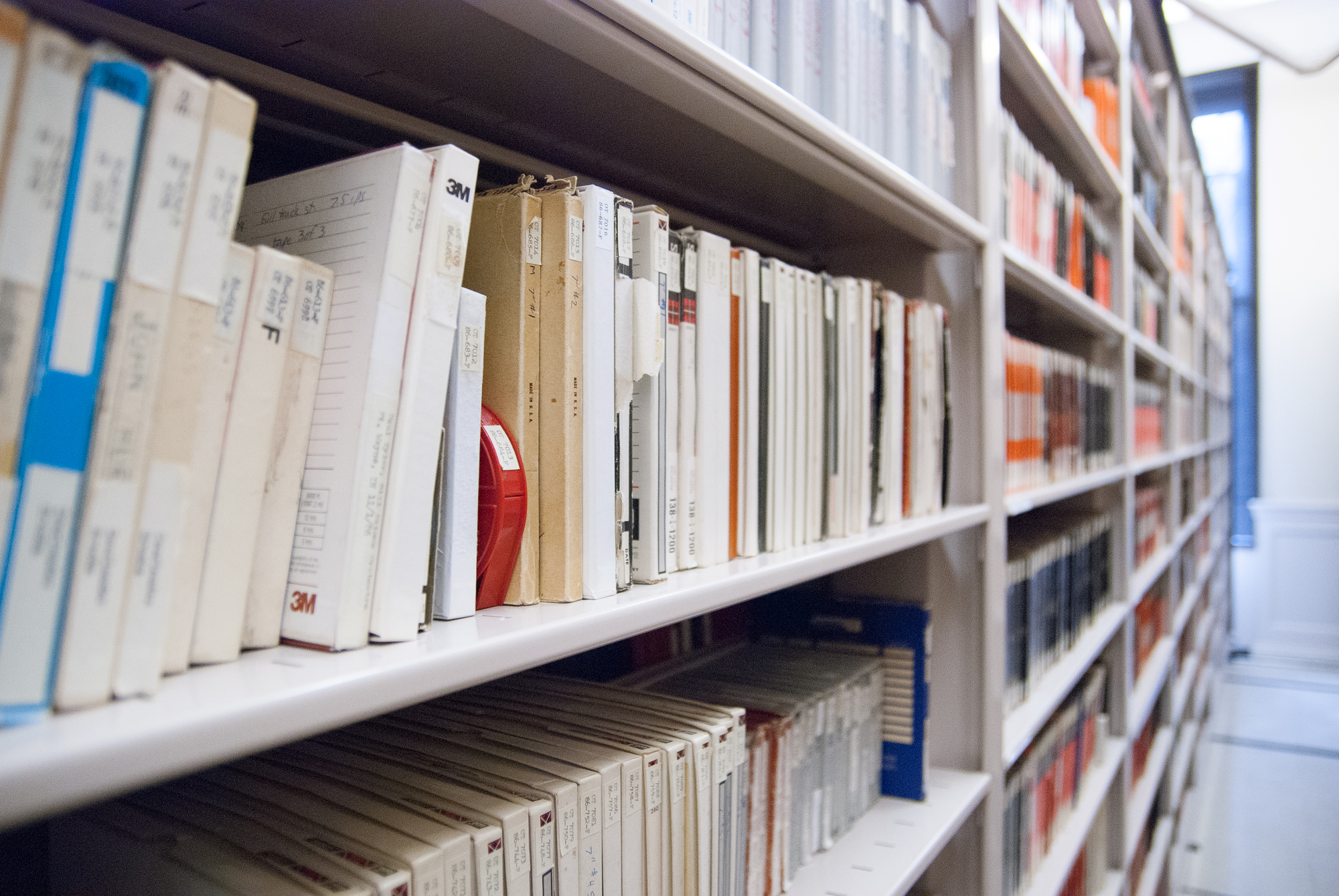 Detail of open reel tape recordings on shelf in the vault of the Archives of Traditional Music